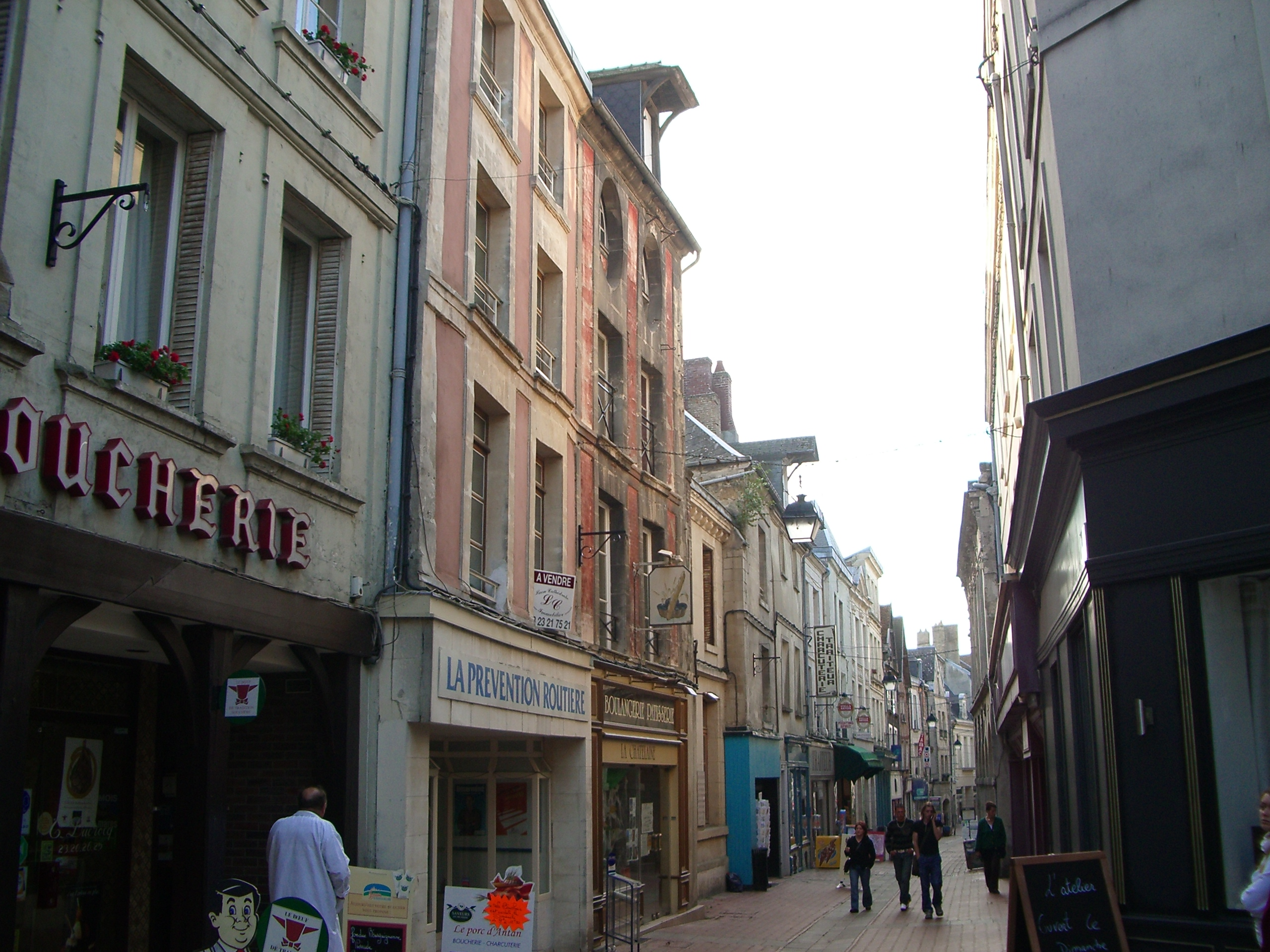 Châtelaine street in Laon, Aisne, France